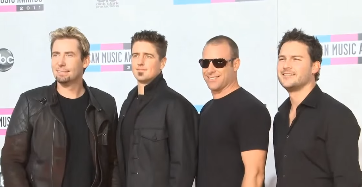 Nickelback at AMAs 2011 Red Carpet